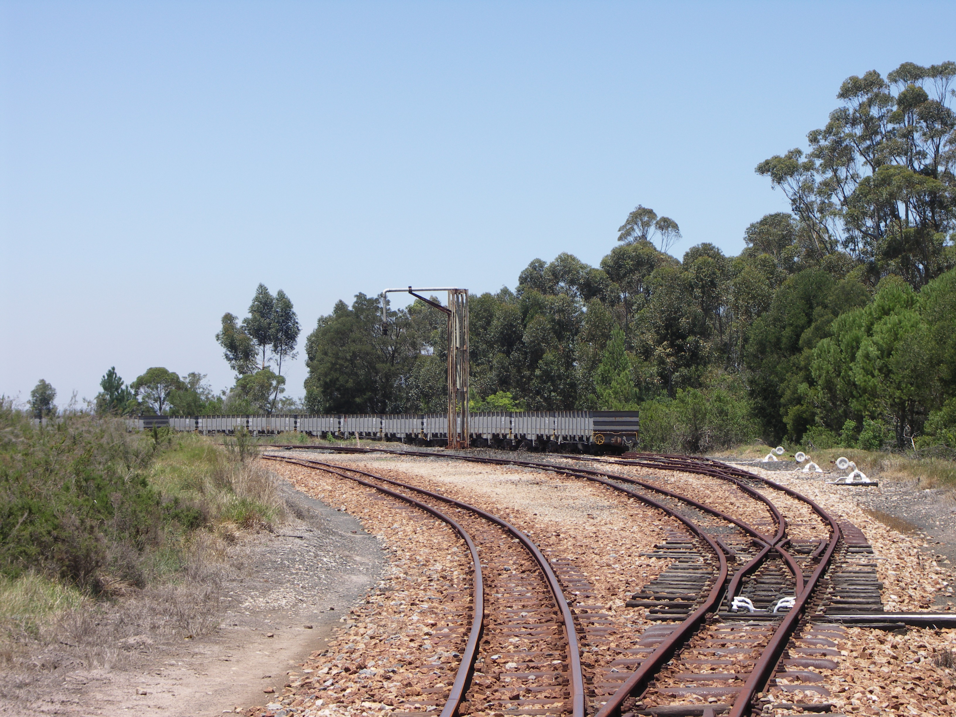 Rolling stock, sidings and points at the Van Staden station of the Avontuur Railway. Eastern Cape, South Africa